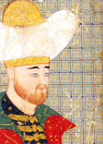 Sultan Bayezid I "the Thunderbolt". Ottoman miniature painting, detail from a family-tree: The Sultan's portrait. [exhibition held at the Topkapı Palace Museum in Istanbul, 6.6.-6.9. 2000]. Topkapı Sarayı Müzesi, Istanbul